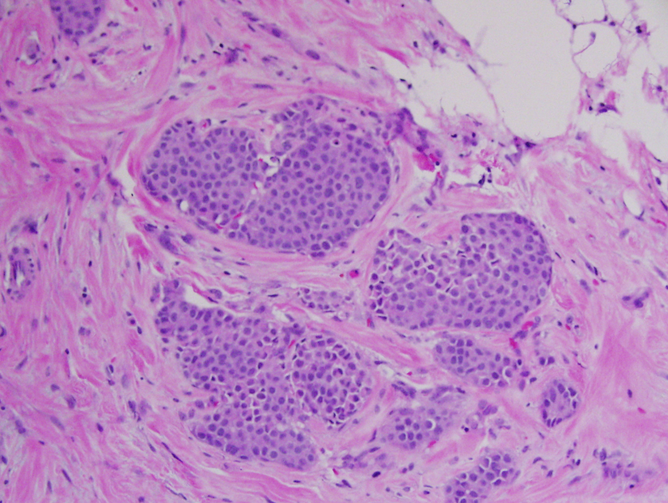 A lobular carcinoma in situ, H&E stain, 20× magnification.